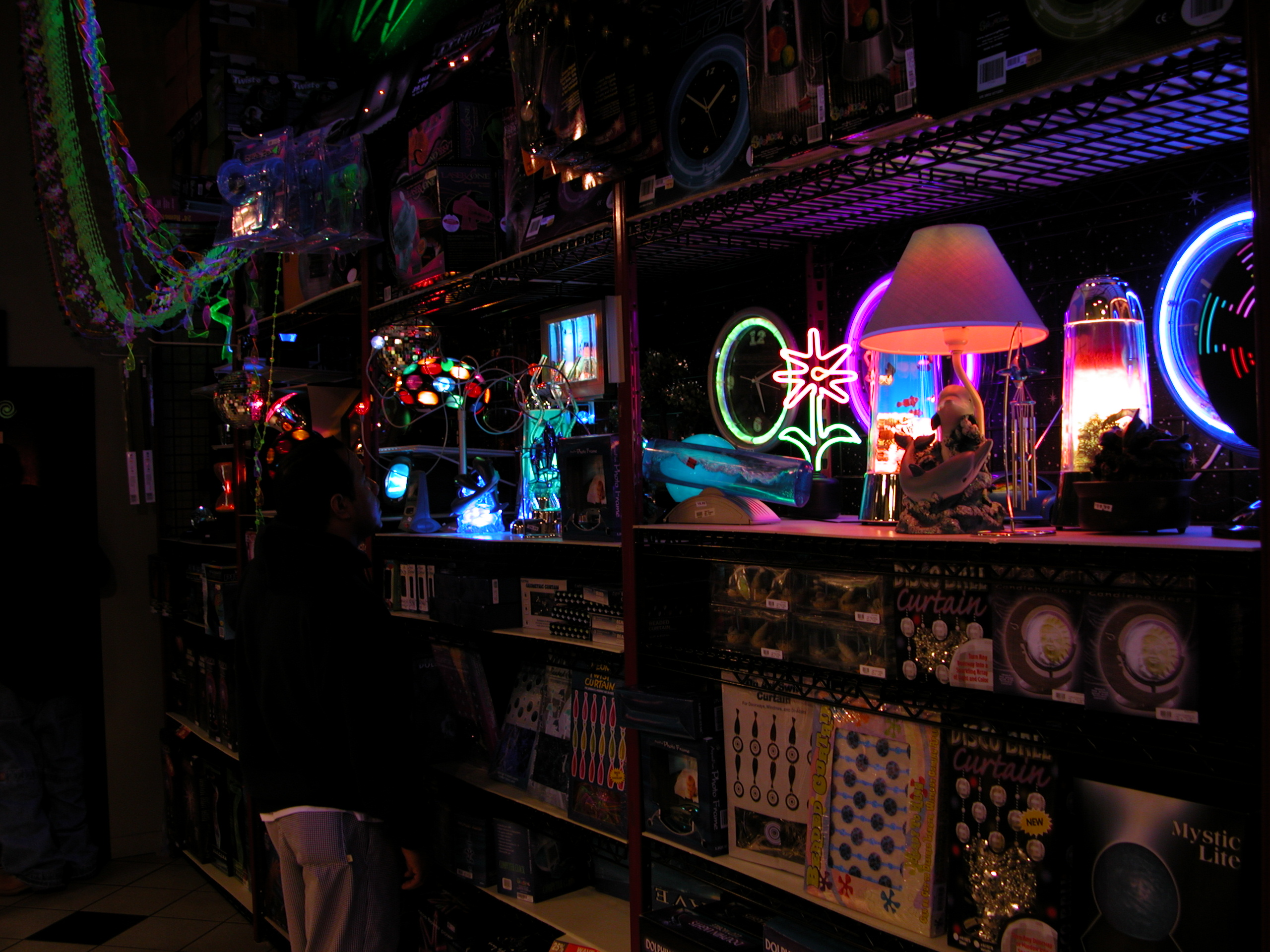 Decorative merchandise at a Spencer's Gifts store at South Point Mall in Durham, North Carolina.